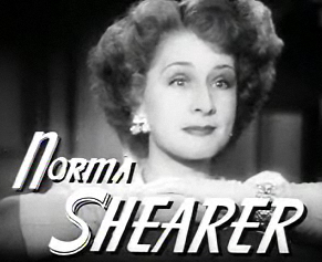 Cropped screenshot of Norma Shearer from the trailer for the film We Were Dancing